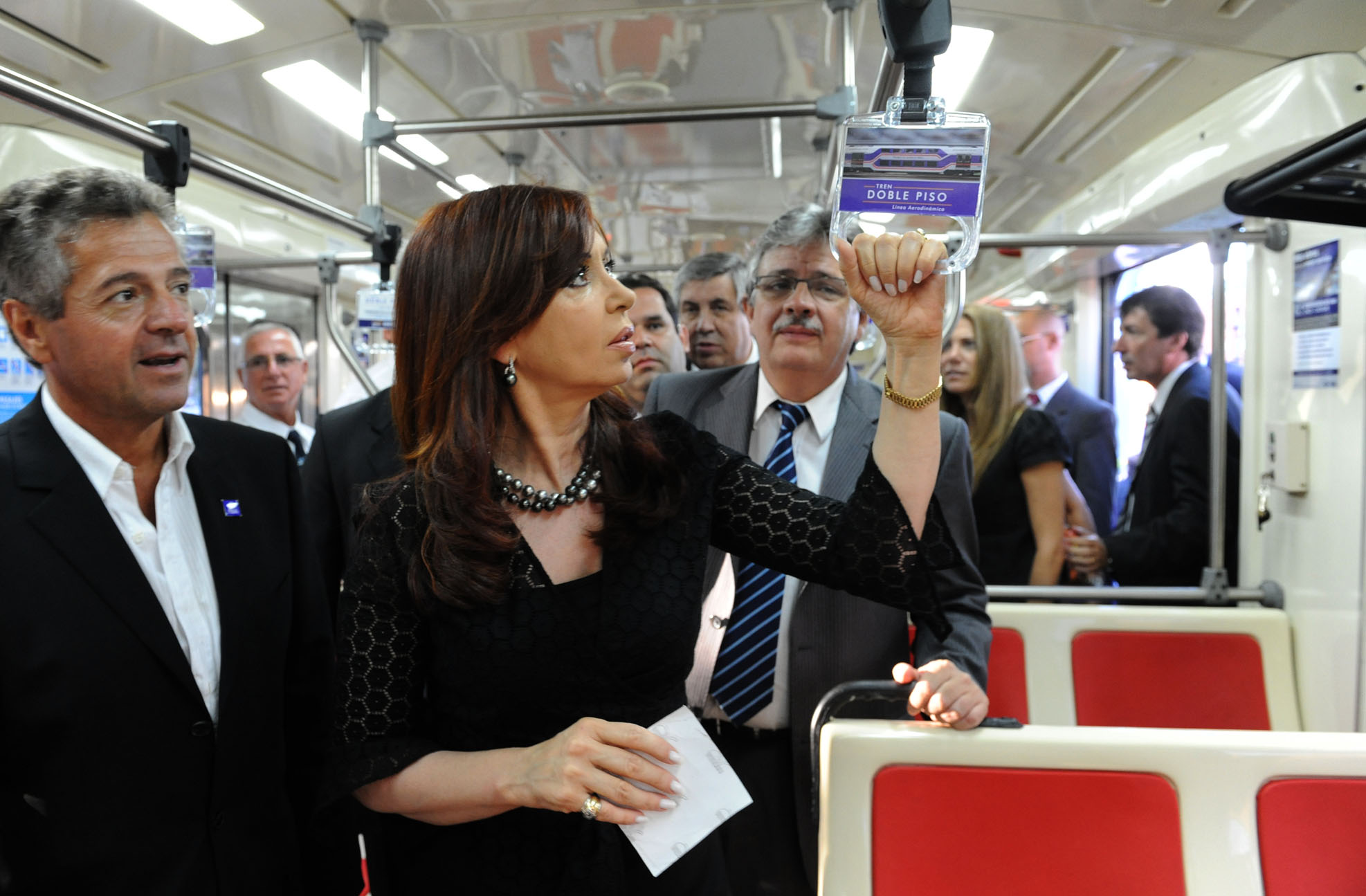 President Cristina Fernandez de Kirchner and Transportation Secretary Juan Pablo Schiavi in the presentation of the new double-decker trains for the Sarmiento line